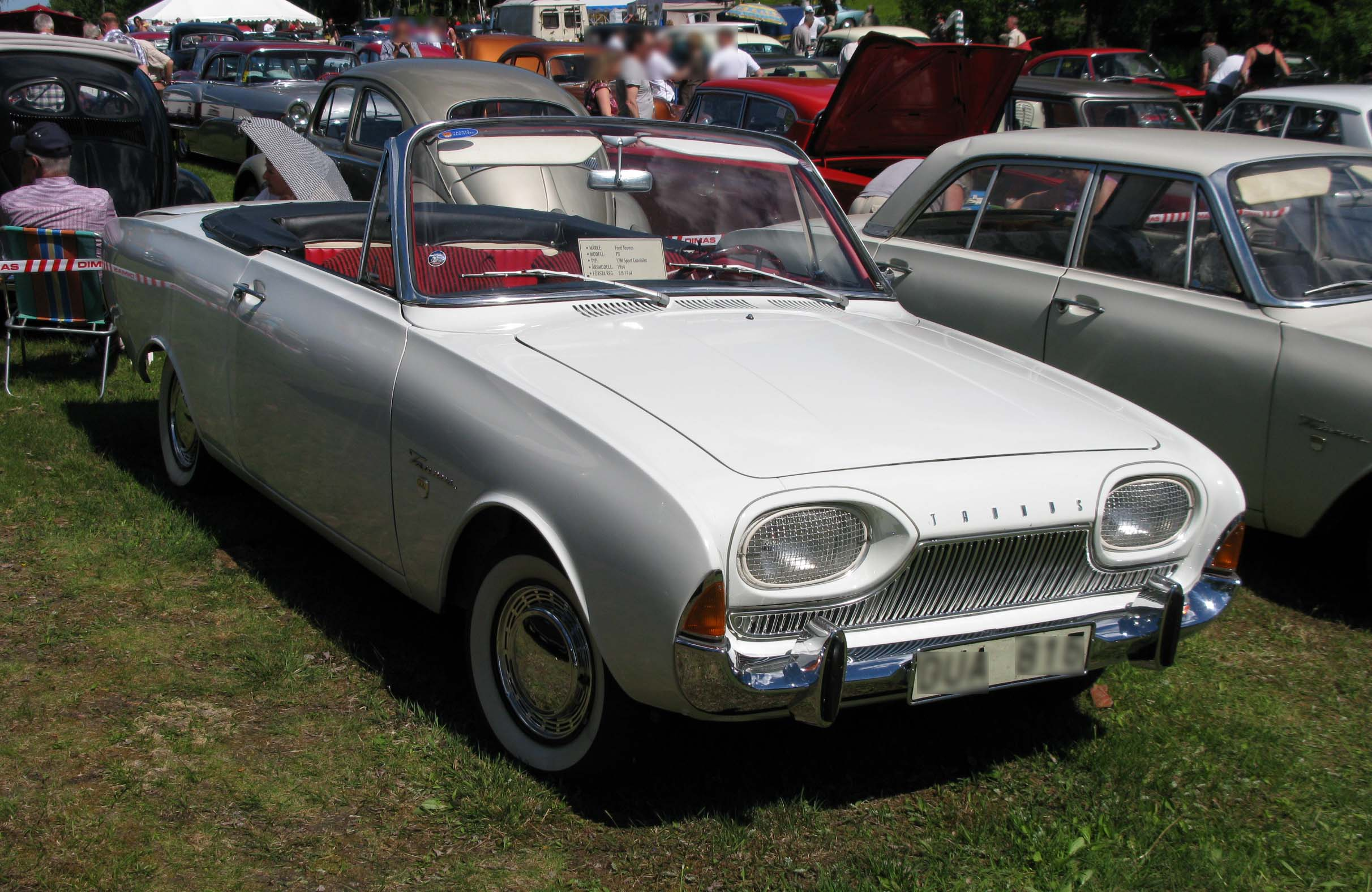 1964 Ford Taunus, cabriolet conversion by Karl Deutsch GmbH.Event: Ånnaboda Classic Motor 2011